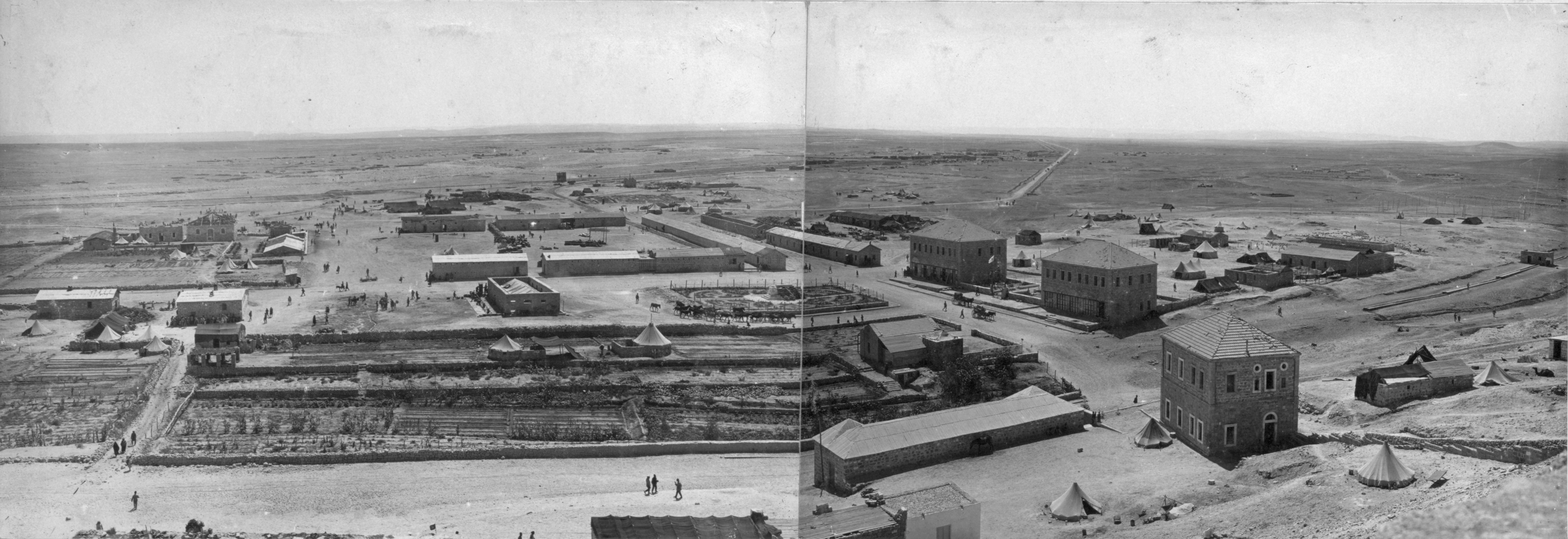 Turkish military town of Hafir el Aujah, the principal desert base, 1916. LC-DIG-ppmsca-13709-00042 (digital file from original on page 12, no.41).